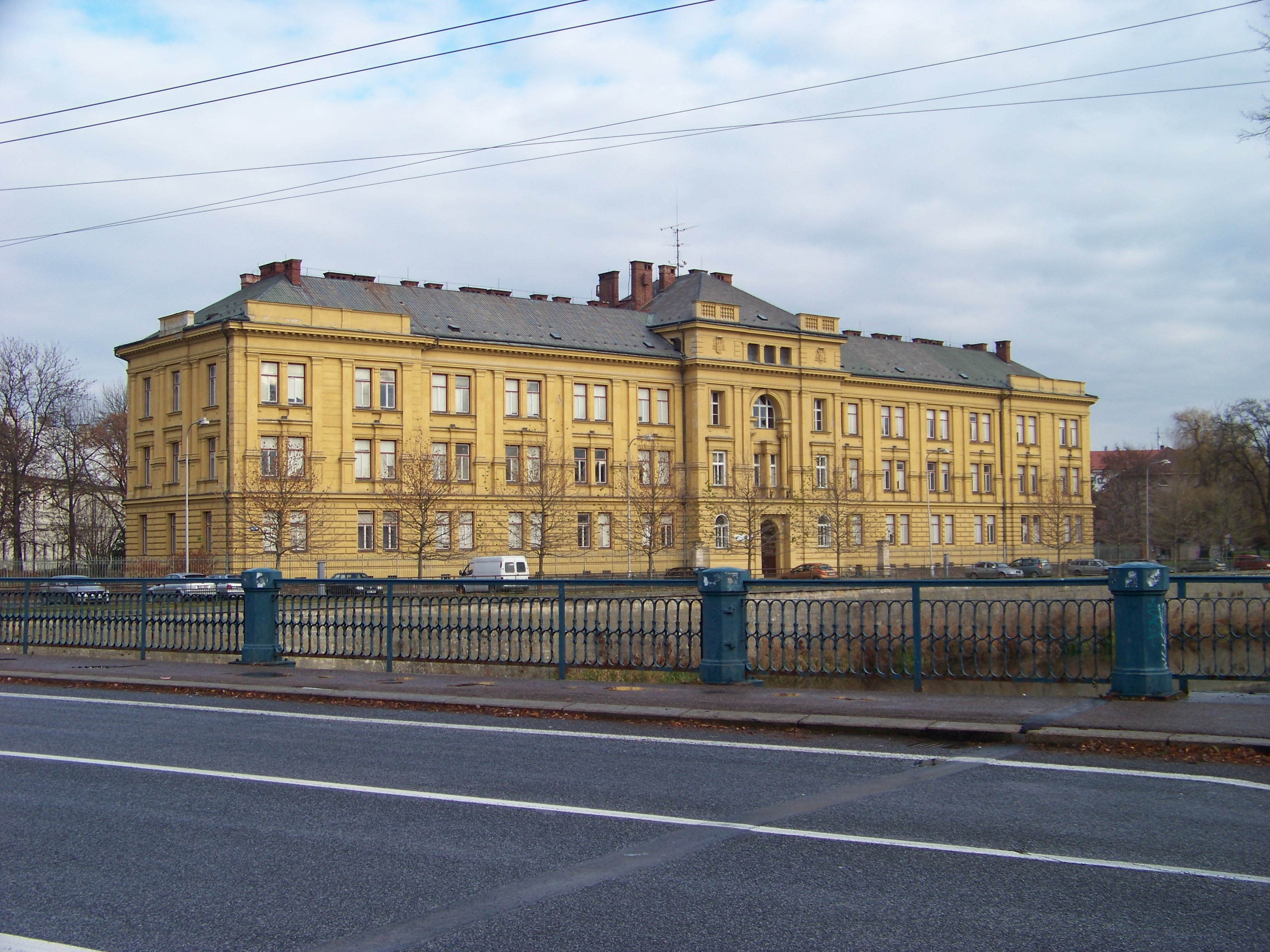 Hradec Králové, Hradec Králové District, Hradec Králové Region, the Czech Republic. Moravian bridge on the Orlice river and the Bishop Gymnasium. - OpenStreetMap(Info)